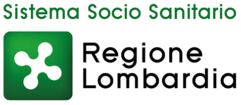 Logo of Lombardy's regional social and healthcare system